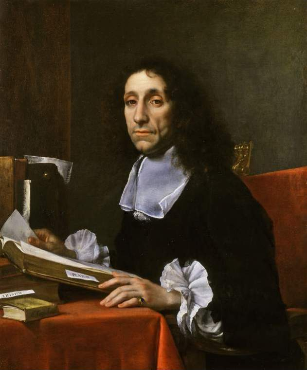 Sir Thomas Baines, Original Fellow of Royal Society